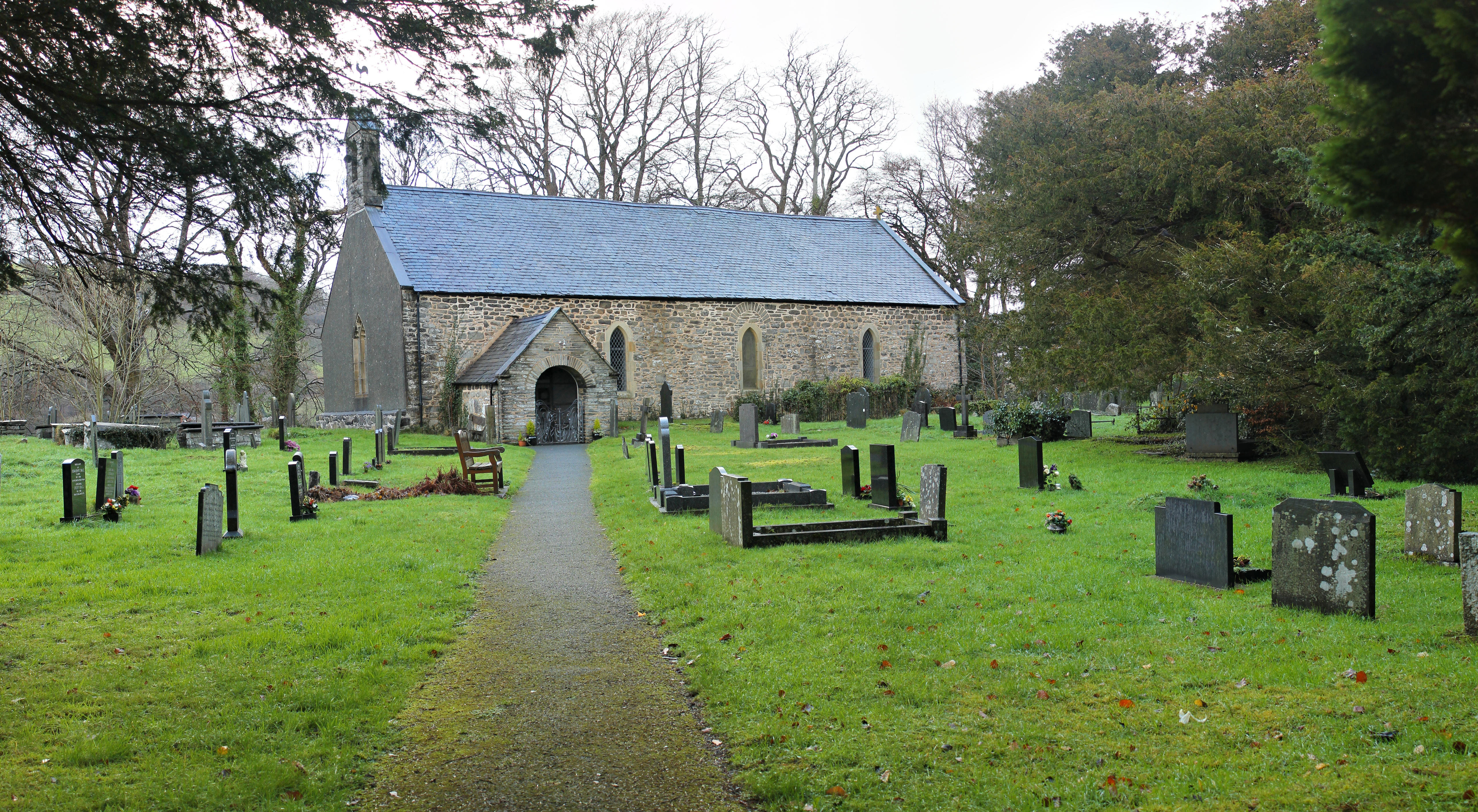 OS Grid Ref: SH839062 Late medieval church heavily restored in the nineteenth century, the interior was altered in 1902. However the roof dates from the fifteenth century and the porch is dated 1742. Coflein